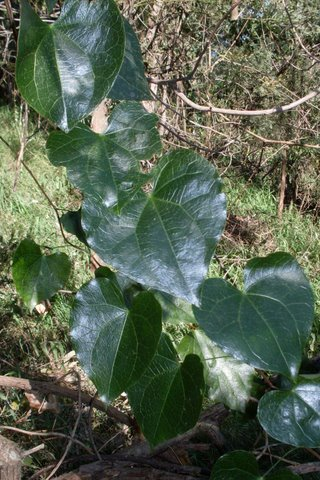 Sarcopetalum harveyanum at Brush Farm, Eastwood